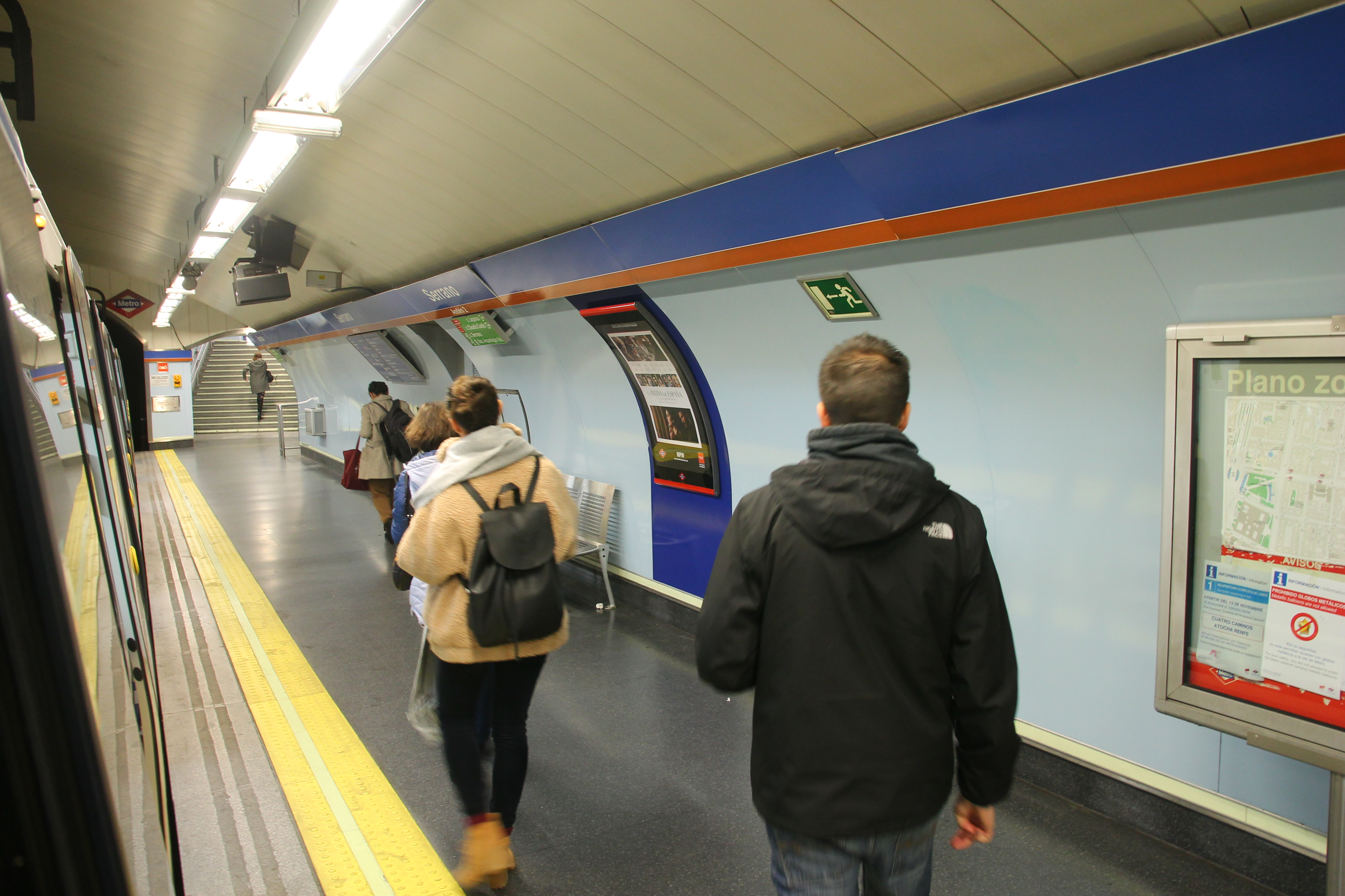 Estación de Serrano